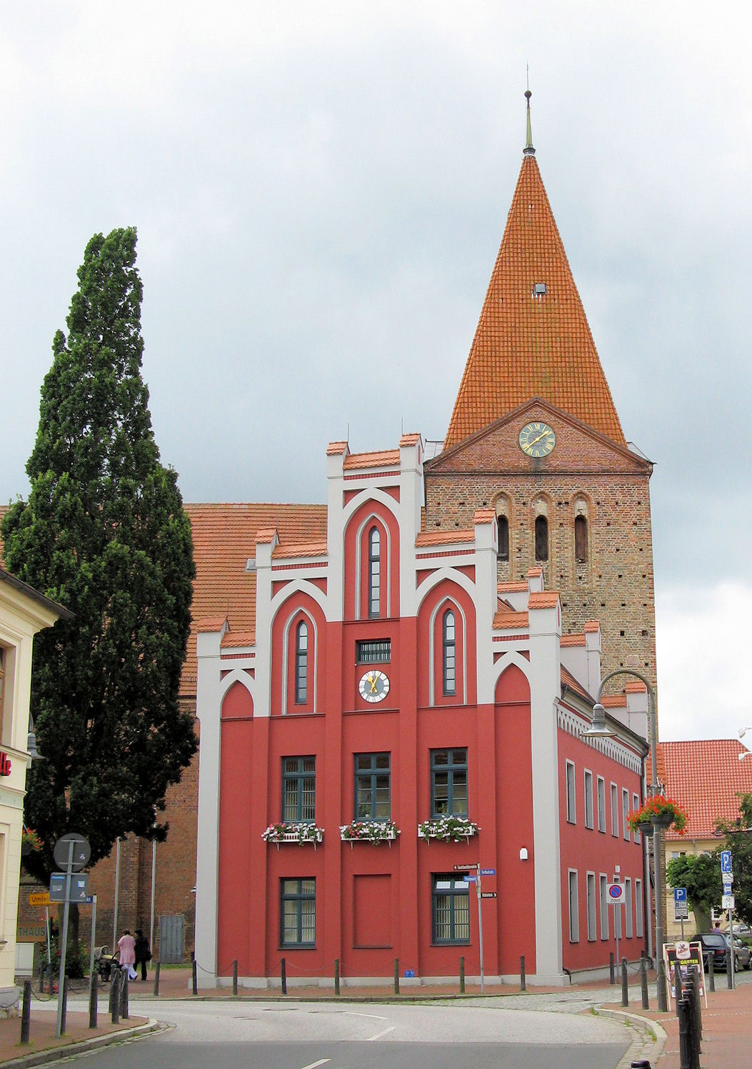 Town hall and church in Schwaan, disctrict Bad Doberan, Mecklenburg-Vorpommern, Germany